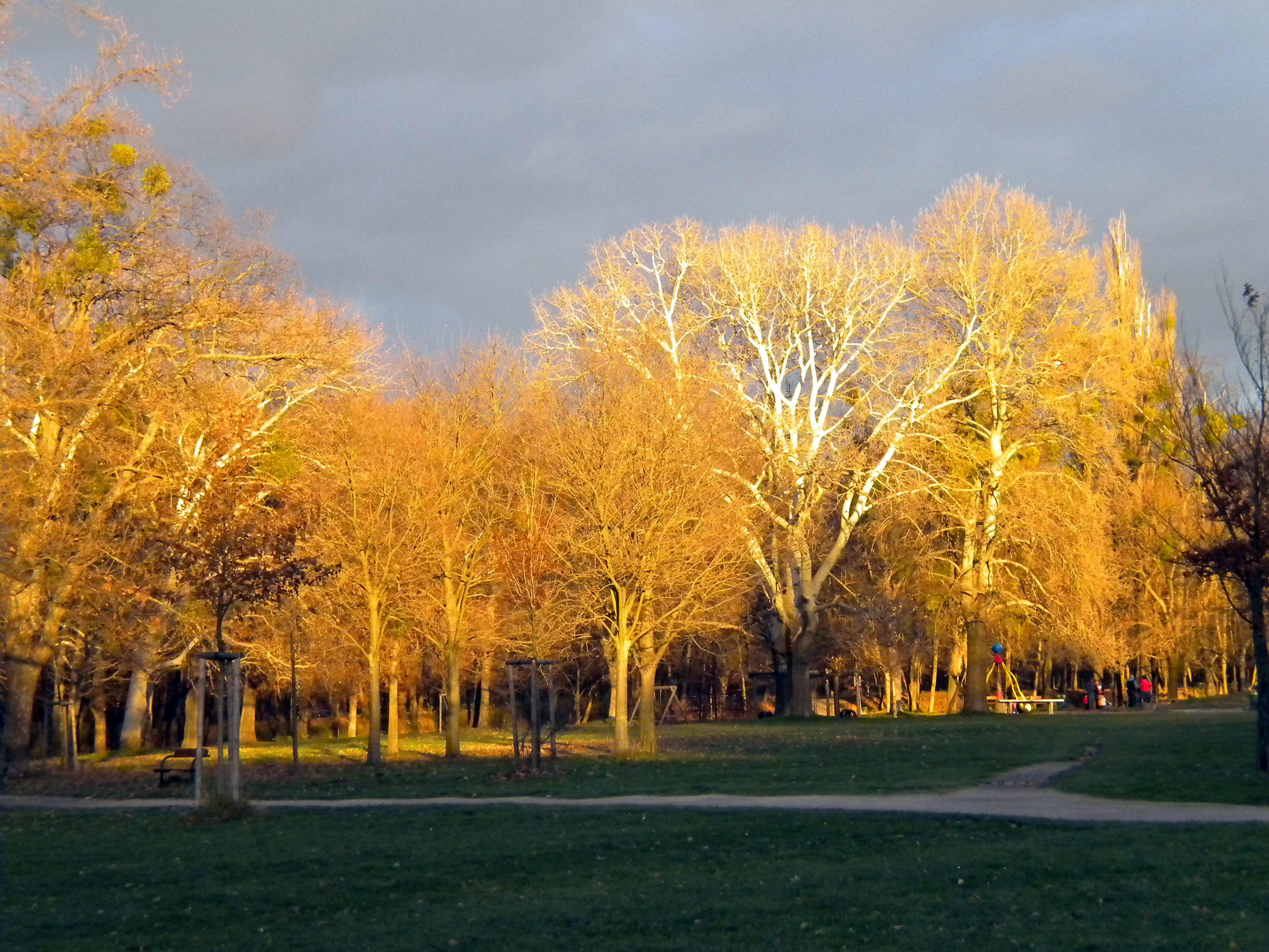 Autumn on Jesuitenwiese meadow in the Vienna Prater